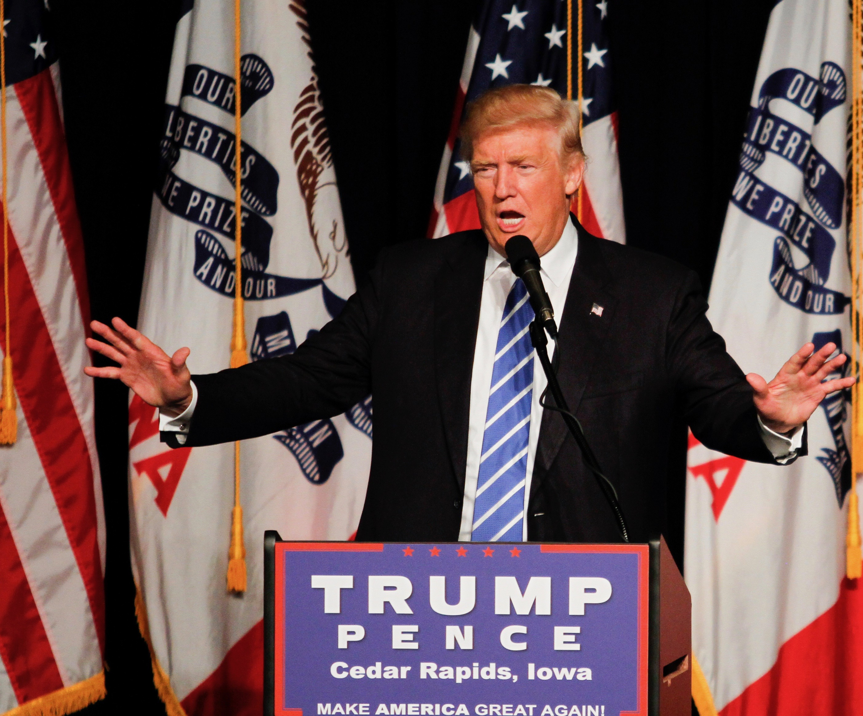 Republican presidential nominee Donald Trump speaks in front of a crowd on July 28 in Cedar Rapids. After talking briefly about becoming the nominee, Trump spoke about his plans to strengthen national security. “We have to get smart,” said Trump. “We have to get very very tough.”